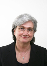 Rosaria Bindi, Italian politician